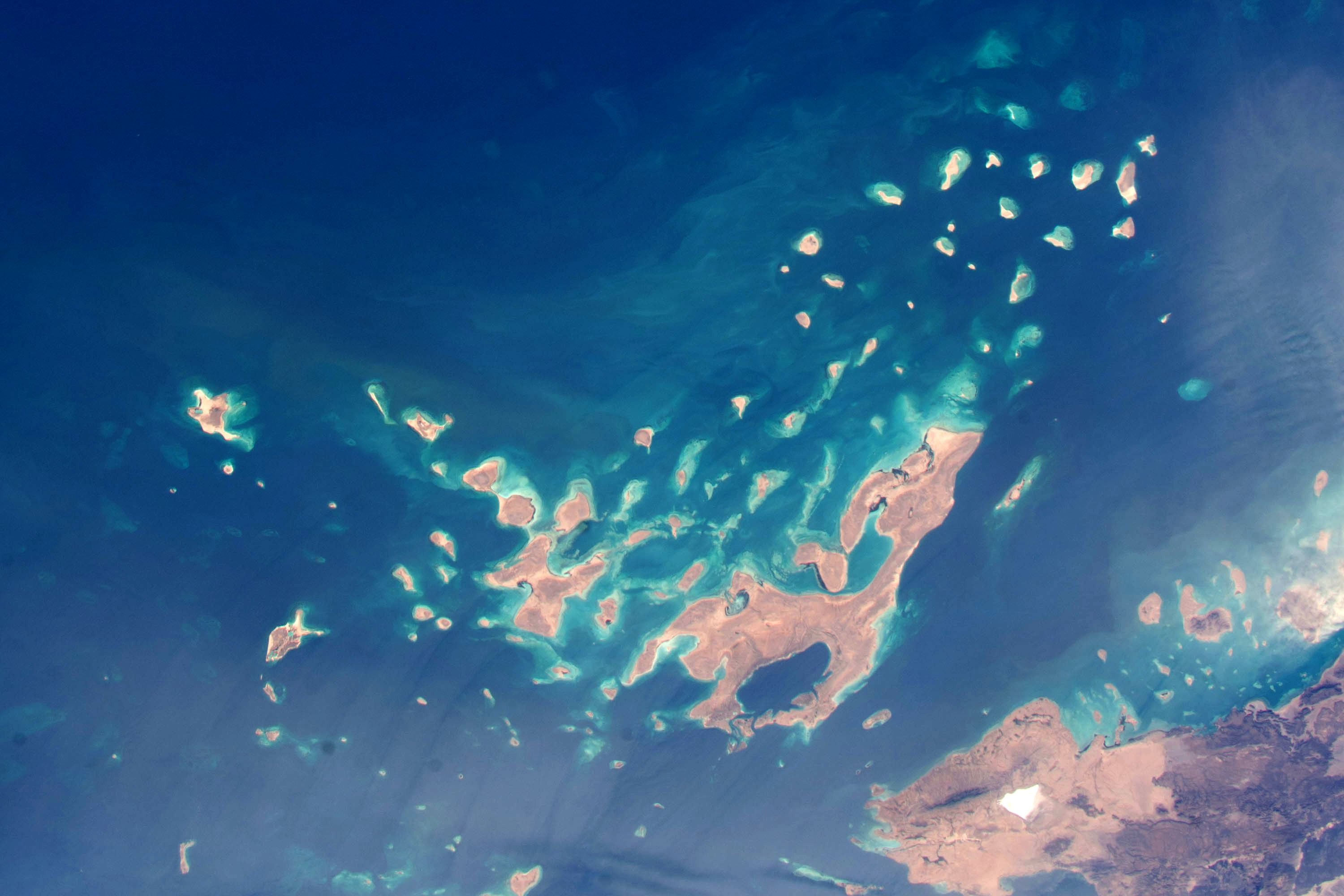 Dahlak Islands in the Red Sea as seen from the International Space Station